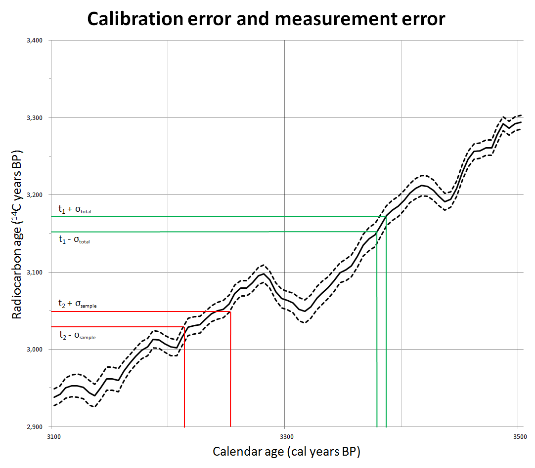 Partial graph of INTCAL13 data, showing variation in calibration curve results. The source for the underlying data is here, via the "intcal13.14c" link. The paper for which this is supplementary data is "IntCal13 and Marine13 Radiocarbon Age Calibration Curves 0–50,000 Years cal BP", by Paula J Reimer, Edouard Bard, Alex Bayliss, J Warren Beck, Paul G Blackwell, Christopher Bronk Ramsey, Caitlin E Buck, Hai Cheng, R Lawrence Edwards, Michael Friedrich, Pieter M Grootes, Thomas P Guilderson, Haflidi Haflidason, Irka Hajdas, Christine Hatté, Timothy J Heaton, Dirk L Hoffmann, Alan G Hogg, Konrad A Hughen, K Felix Kaiser, Bernd Kromer, Sturt W Manning, Mu Niu, Ron W Reimer, David A Richards, E Marian Scott, John R Southon, Richard A Staff, Christian S M Turney, Johannes van der Plicht, in Radiocarbon, Vol. 55, No. 4.". This paper should be cited when using this data or this graph. The graph uses the first three columns of data from the given source -- calendar years before present, and radiocarbon years before present, plus the standard error, which is used to create the error lines adjacent to the main graph. There are two examples given, showing correct (t1) and incorrect (t2) ways to use the calibration error to derive a calendar year range. The layout of the graph is based on a diagram on page 101 of Aitken, M.J. (1990). Science-based dating in Archaeology. London: Longman. ISBN 0-582-49309-9